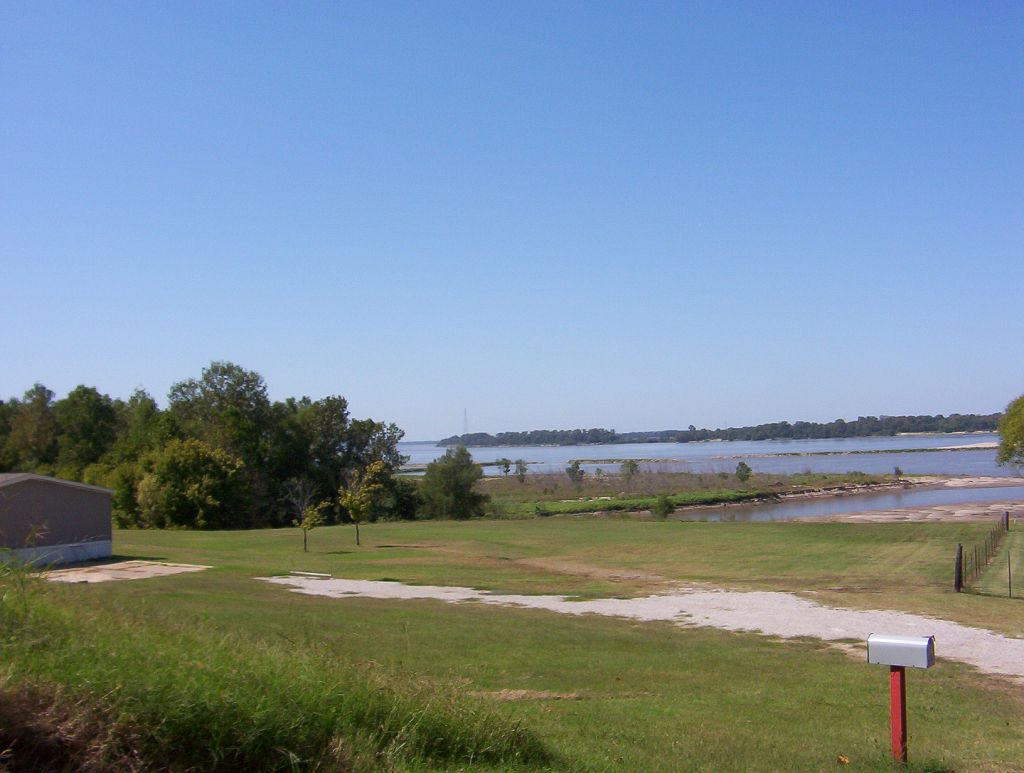 Scenic view onto the Mississippi River at Randolph, Tennessee. I made the photo myself, feel free to use it.